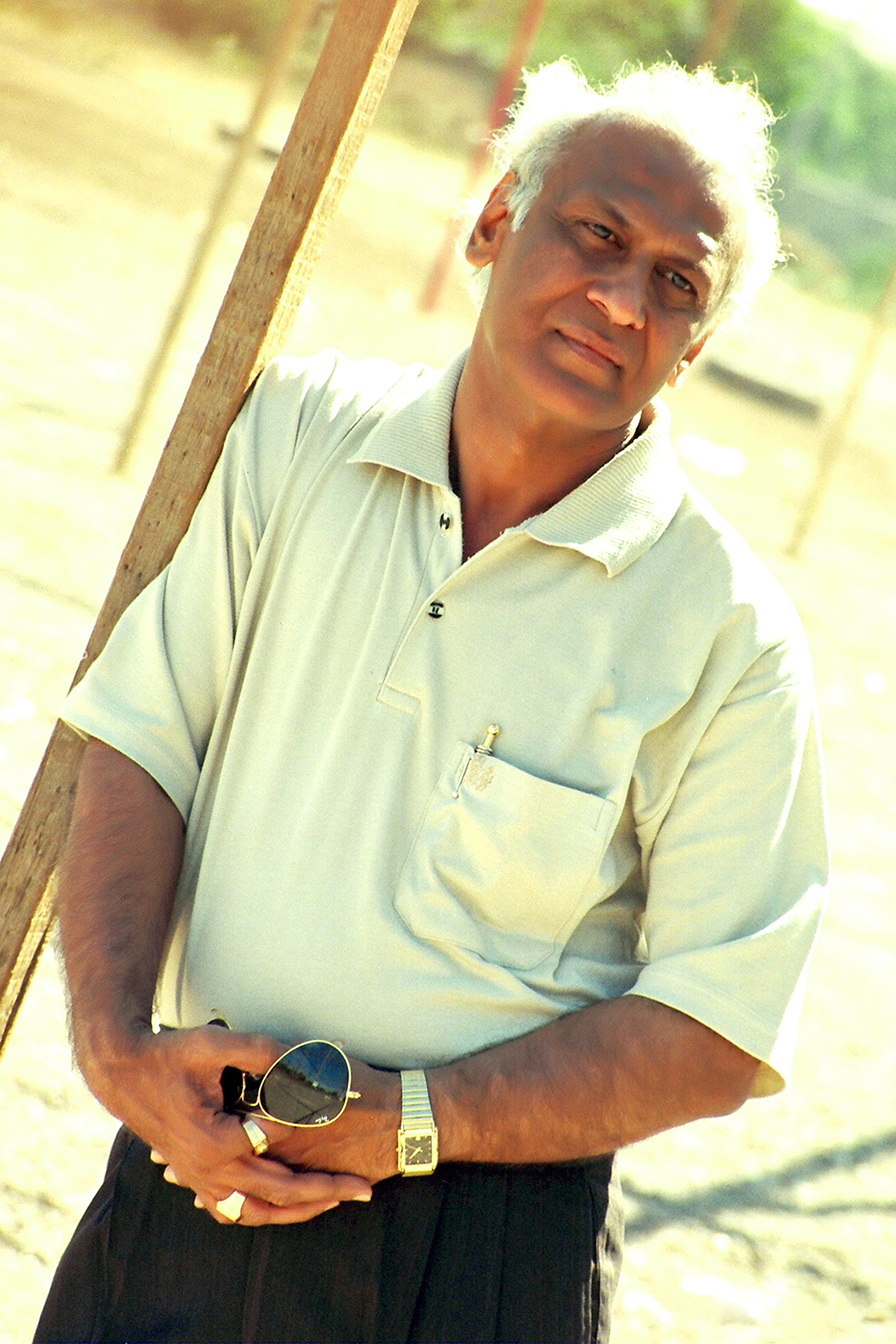 Manoj Khaderia at Junagarh, 1996